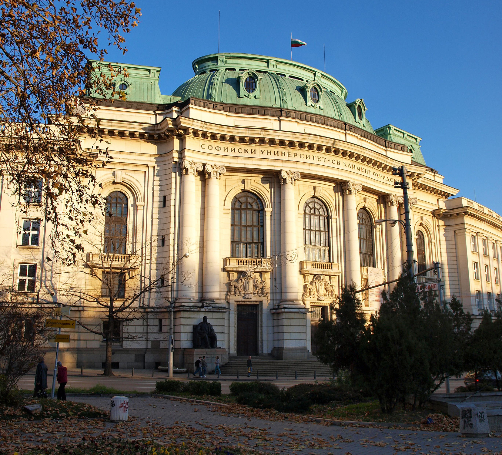 Rectorate of the St. Clement of Ohrid University of Sofia in Sofia, Bulgaria